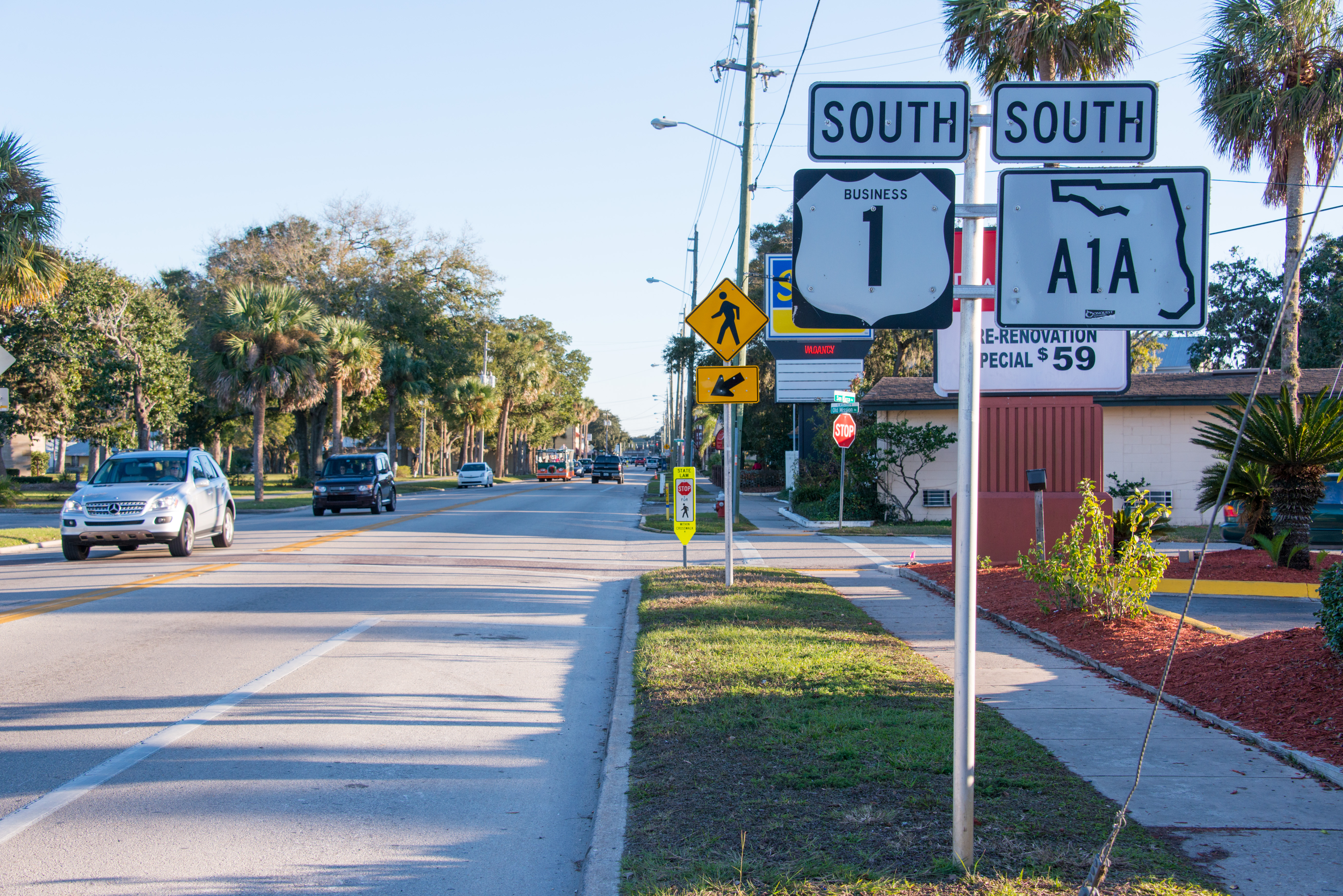 Facing south on San Marco Avenue, signage for US 1 Business and Florida State Road A1A, in Saint Augustine, Florida.